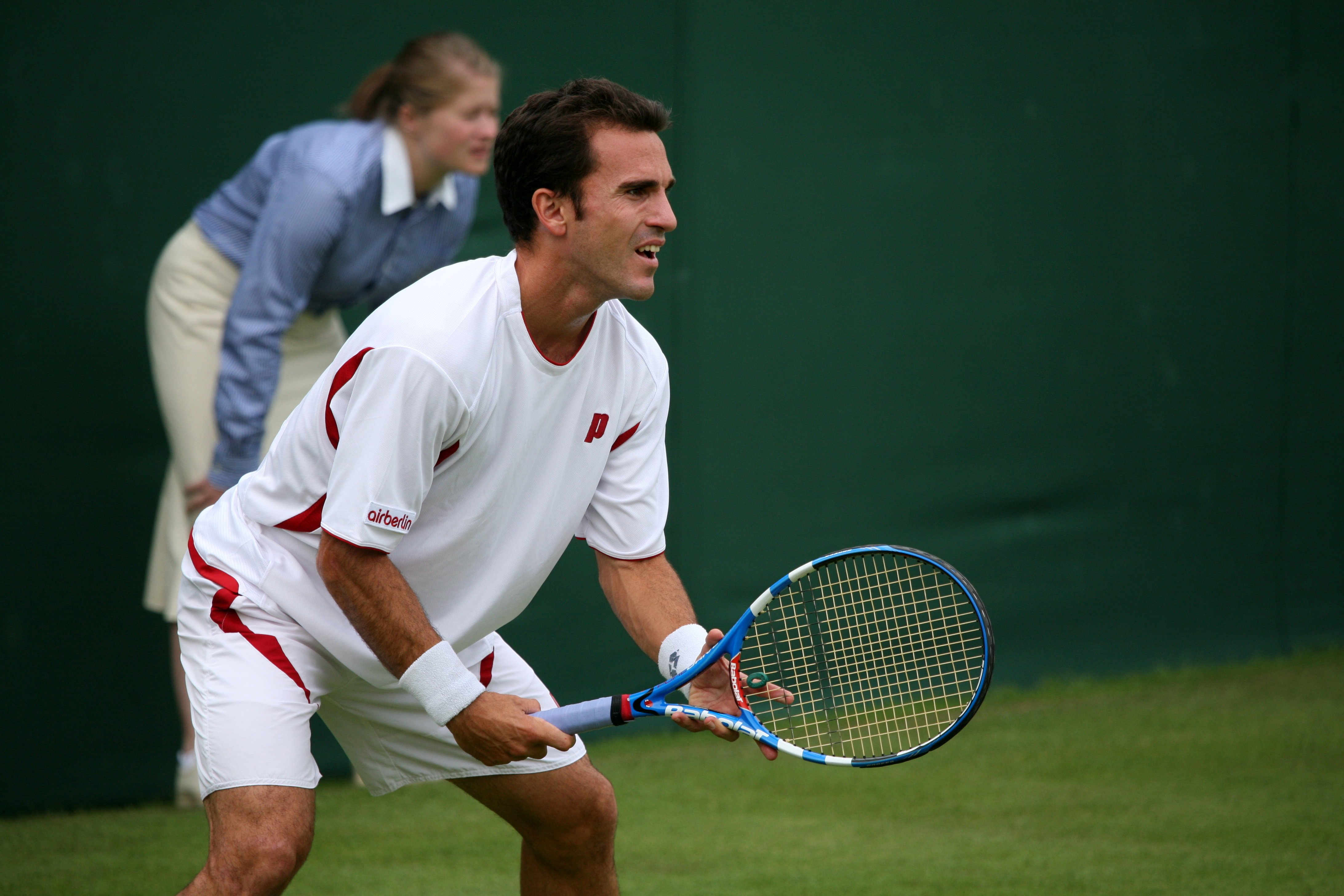 Alberto Martín against Marin Čilić in the 2009 Wimbledon Championships first round